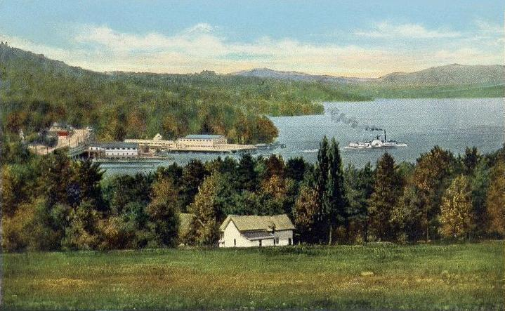 Steamship Mount Washington leaving The Weirs, Lake Winnipesaukee, NH; from a c. 1920 postcard.